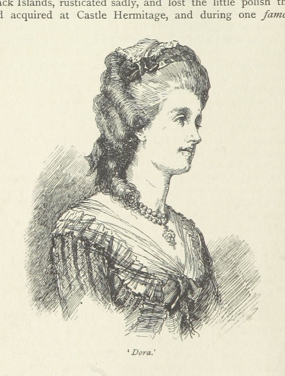 Image taken from: Title: "Ormond. A tale ... Illustrated by C. Schloesser. With an introduction by Anne Thackeray Ritchie", "Single Works" Author: Edgeworth, Maria Contributor: Ritchie, Anne Thackeray Shelfmark: "British Library HMNTS 012621.h.13." Page: 106 Place of Publishing: London Date of Publishing: 1895 Publisher: Macmillan & Co. Issuance: monographic Identifier: 001035572 Explore: Find this item in the British Library catalogue, 'Explore'. Download the PDF for this book (volume: 0) Image found on book scan 106 (NB not necessarily a page number) Download the OCR-derived text for this volume: (plain text) or (json) Click here to see all the illustrations in this book and click here to browse other illustrations published in books in the same year. Order a higher quality version from here. This file is from the Mechanical Curator collection, a set of over 1 million images scanned from out-of-copyright books and released to Flickr Commons by the British Library. Please add the Flickr page URL for the image Please add the British Library system number for the book This tag does not indicate the copyright status of the attached work. A normal copyright tag is still required. See Commons:Licensing.